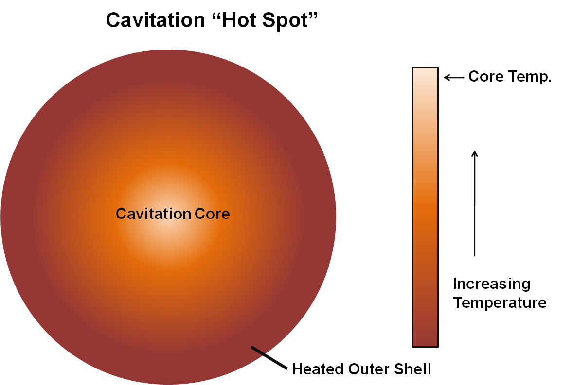 Upon the violent collapse of a bubble during cavitation, a hot spot will be produced that lasts for a small amount of time. The hot spot contains a high temperature core, with a cooler outer shell.